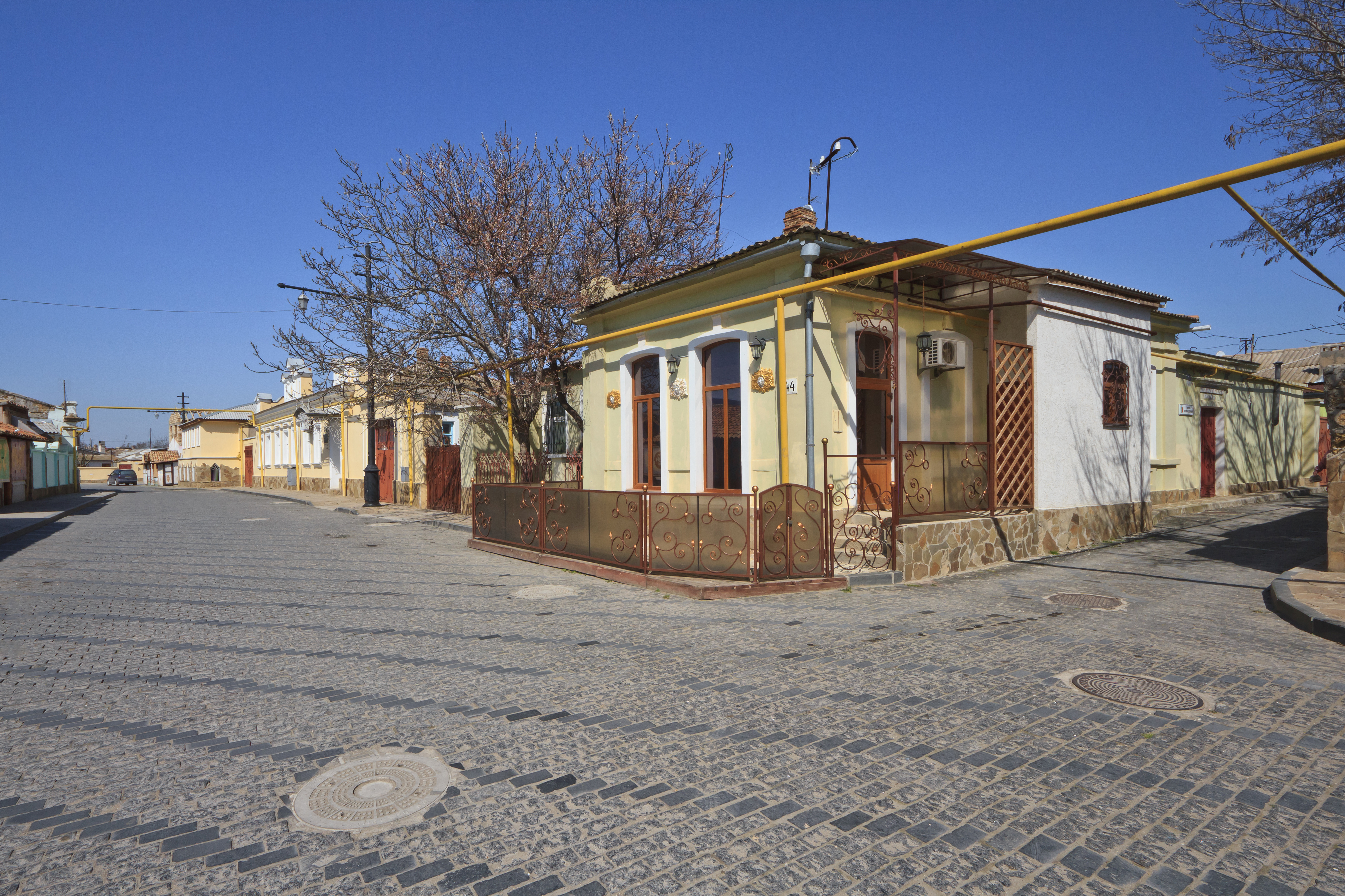 Karaimskaya Street in the old town of Eupatoria, Crimean Peninsula.